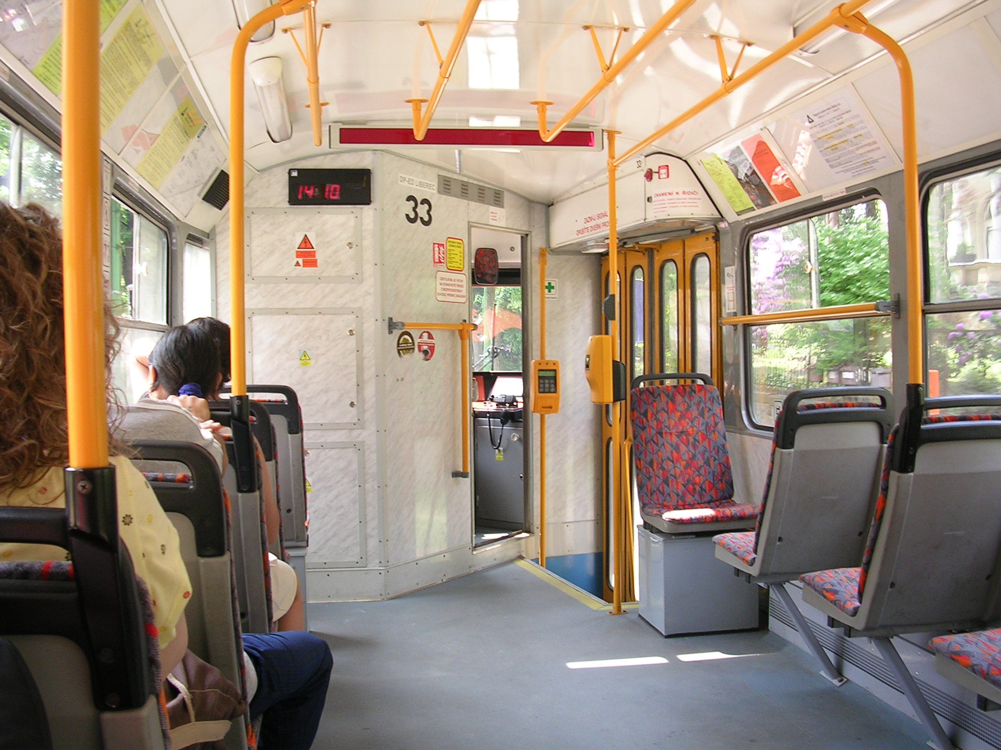 Liberec. The Czech Republic.